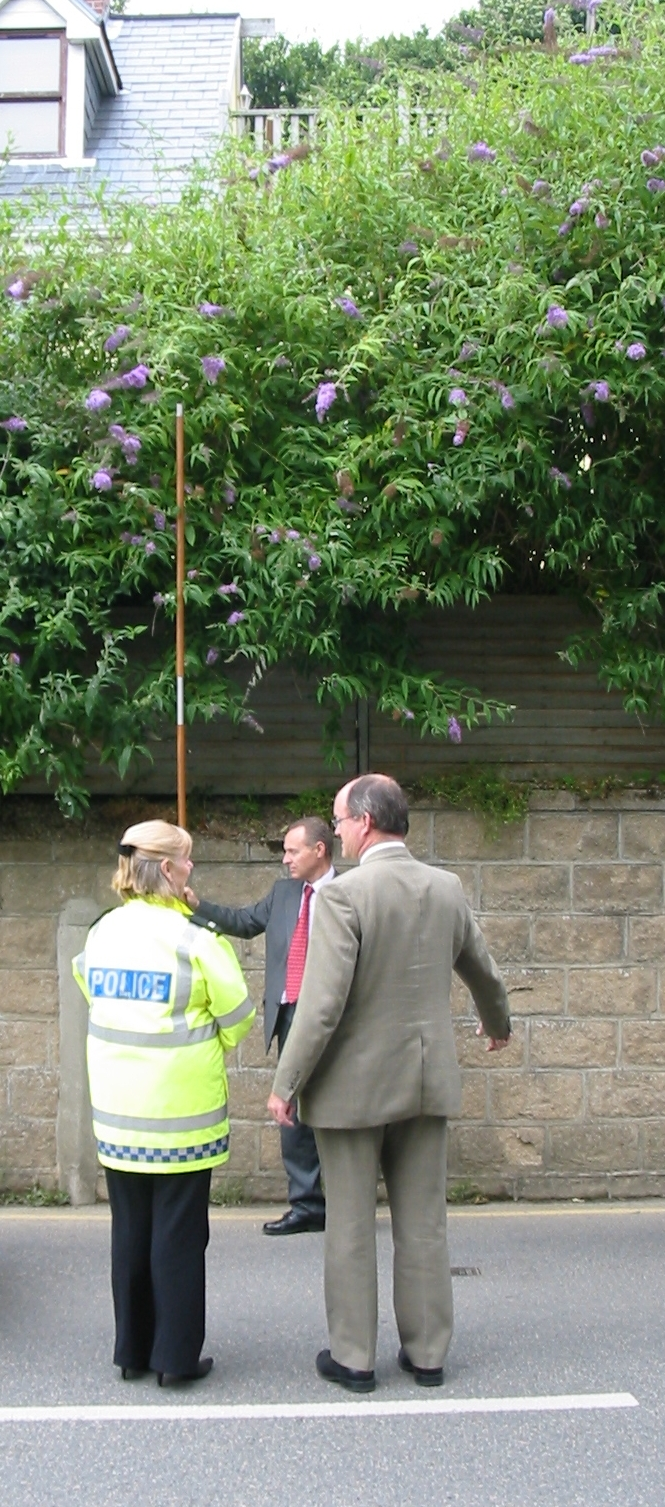 Visite du Branchage, Saint Helier, Jersey, July 2008